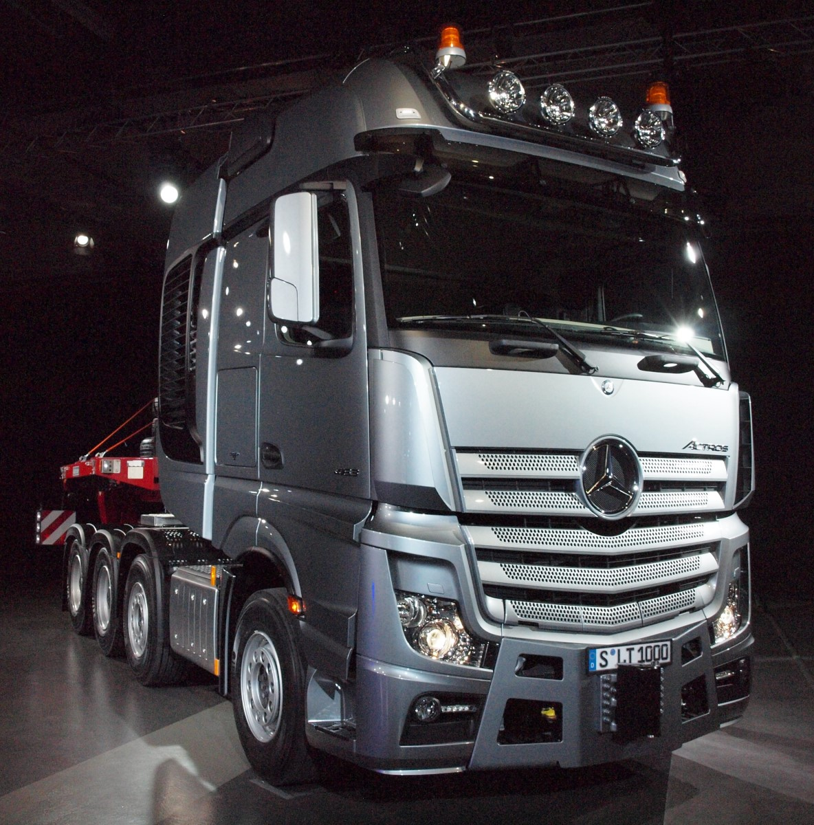 Mercedes-Benz Actros SLT